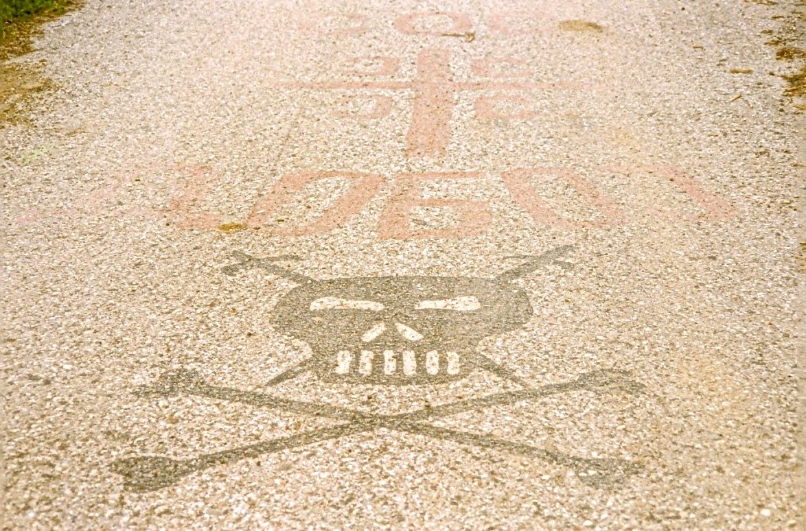 Serbian nationalistic grafitti painted on a road close to Doboj in Bosnia